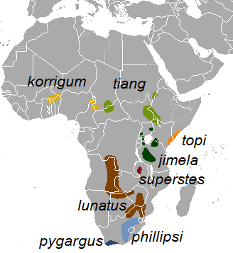 range map of the subspecies of Damaliscus from top to bottom: Damaliscus lunatus korrigum = Damaliscus korrigum korrigum (according to Mammal Species of the World (2005)) Damaliscus lunatus tiang (not recognized by Mammal Species of the World (2005)) Damaliscus lunatus topi = Damaliscus korrigum topi (according to Mammal Species of the World (2005)) Damaliscus lunatus jimela = Damaliscus korrigum jimela (according to Mammal Species of the World (2005)) Damaliscus lunatus superstes = Damaliscus superstes (according to Mammal Species of the World (2005)) Damaliscus lunatus lunatus = Damaliscus lunatus (according to Mammal Species of the World (2005)) Damaliscus pygargus phillipsi Damaliscus pygargus pygargus